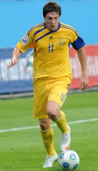 Yevhen Seleznyov